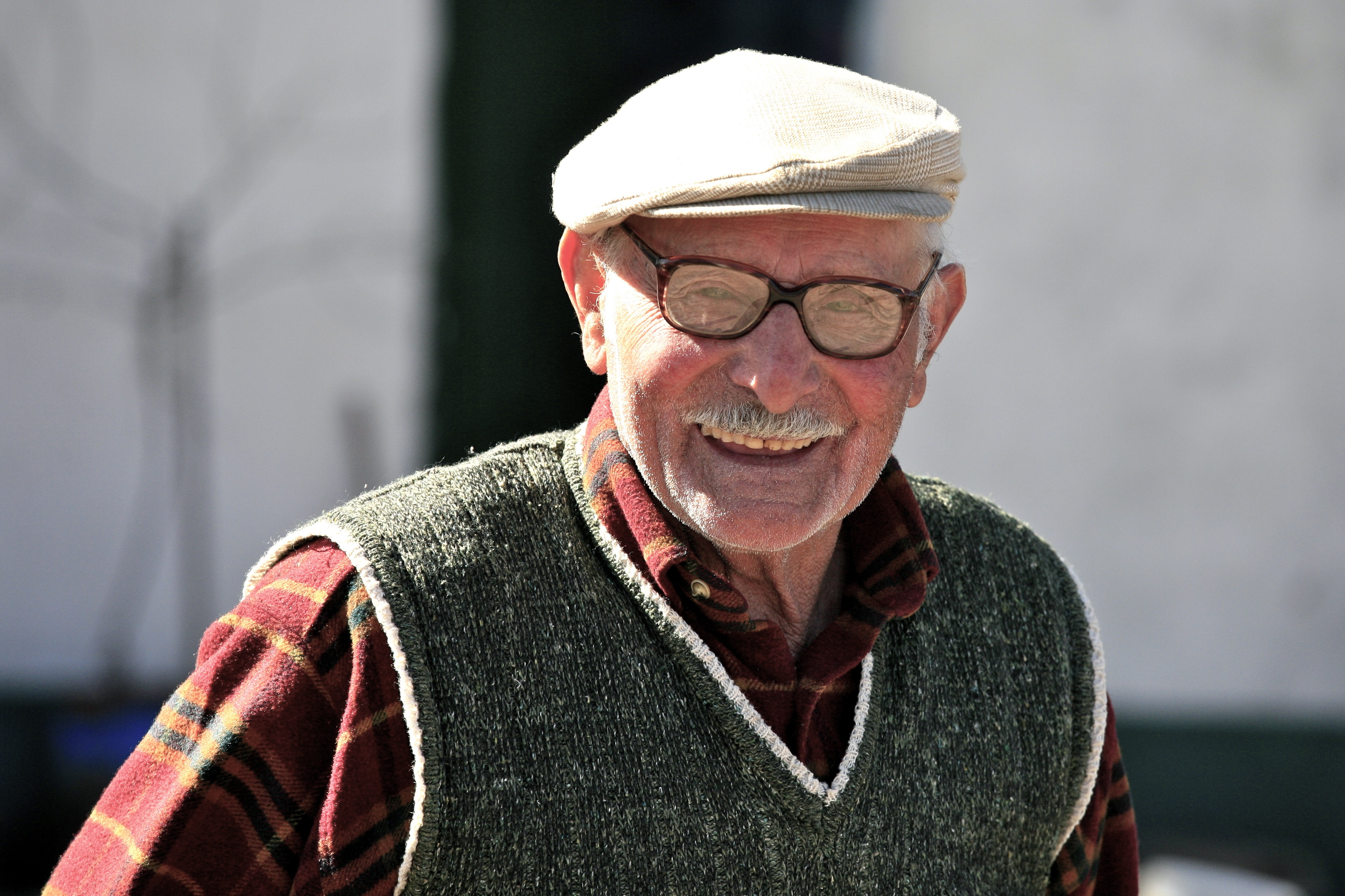 The Fountain of Youth